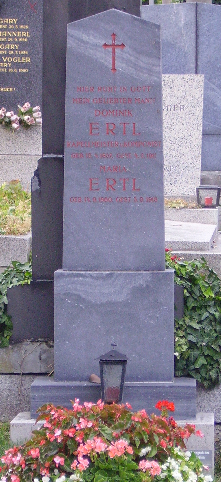 Dominik Ertl (1857-1911), grave at the cemetery Hernals, Vienna